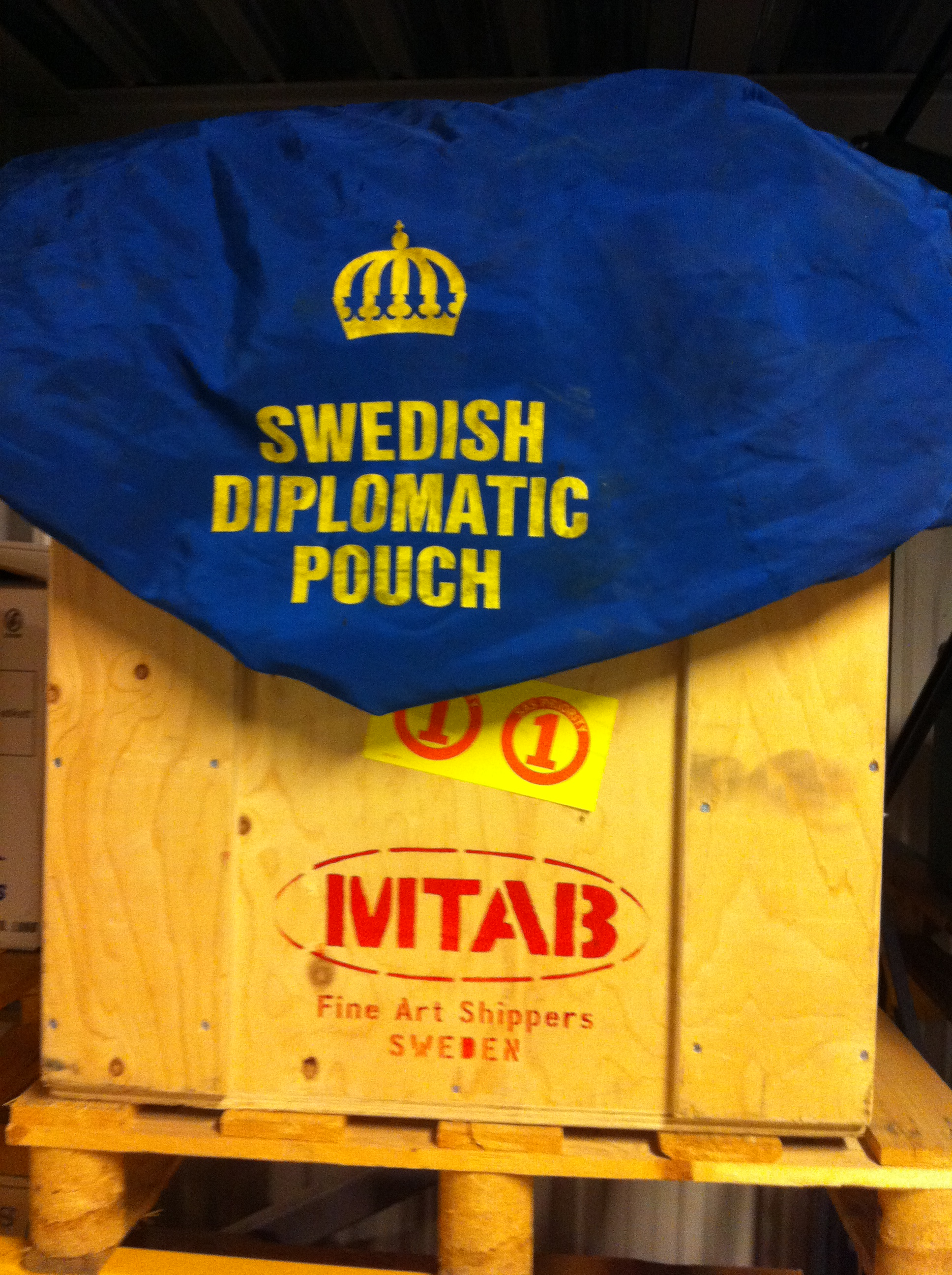 Swedish Diplomatic Pouch, seen at Rotebro, Sollentuna, Stockholm, Sweden